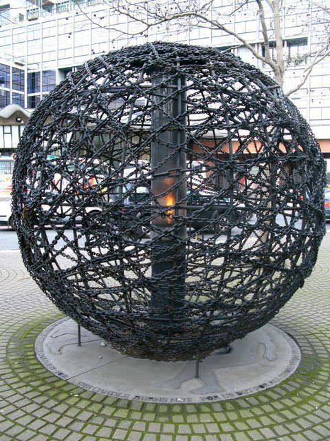 Amnesty International Sculpture The sculpture is by Tony O’Malley and is called “Universal Links on Human Rights”. It was commissioned by Amnesty International in 1995 and is made of steel, stone, glass and gas it is 260cm in diameter.sc